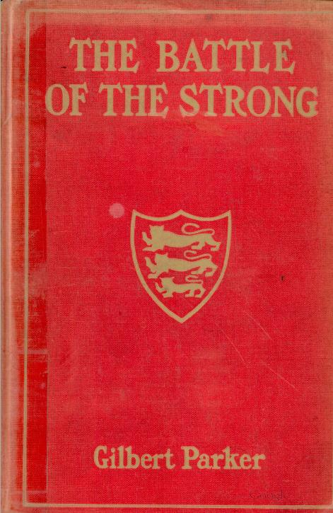 Scan of book cover of 1898 novel "The Battle of the Strong"